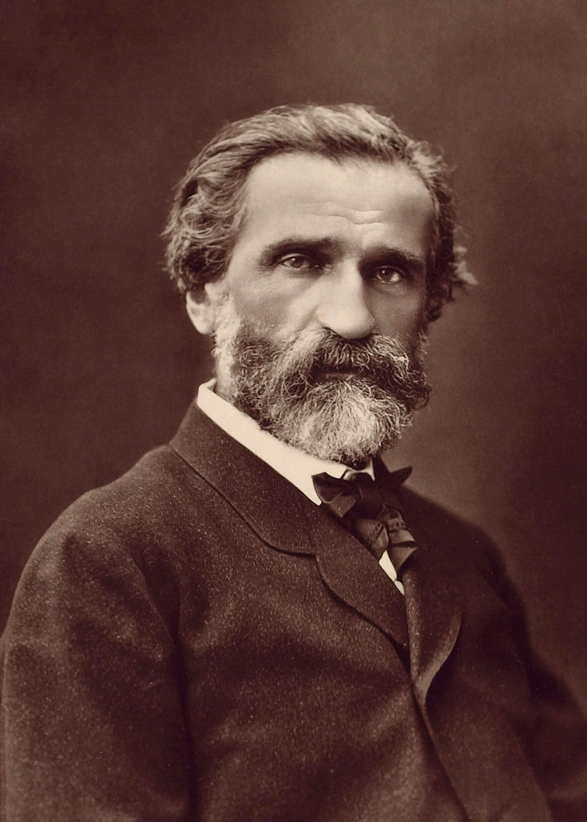 Picture of Giuseppe Verdi.